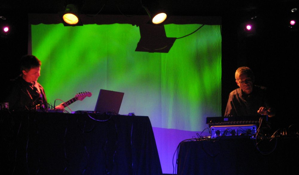 German guitarist and experimental musician Michael Rother (left; ex - Kraftwerk, Neu!, Harmonia) and German/Swiss electronic experimental musician Dieter Moebius (right; ex - Cluster/Kluster, Harmonia). This photo was taken live at a concert of ROTHER & MOEBIUS (an electronica /ambient-krautrock collaboration project of Michael Rother & Dieter Moebius) in Frankfurt am Main/Germany (at "Sinkkasten"). More pictures from the same concert: Image:Michael_rother_2007-11-14_live1.jpg, Image:michael_rother_2007-11-14_live2.jpg, Image:dieter_moebius_2007-11-14_live.jpg